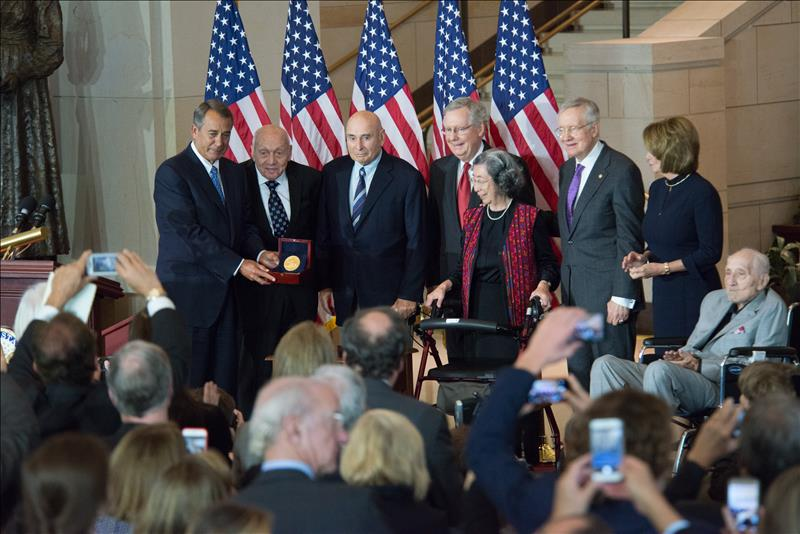 House Speaker John Boehner honored the Monuments Men with a Congressional Gold Medal on Oct. 22 in his last gold medal ceremony as Speaker of the House.